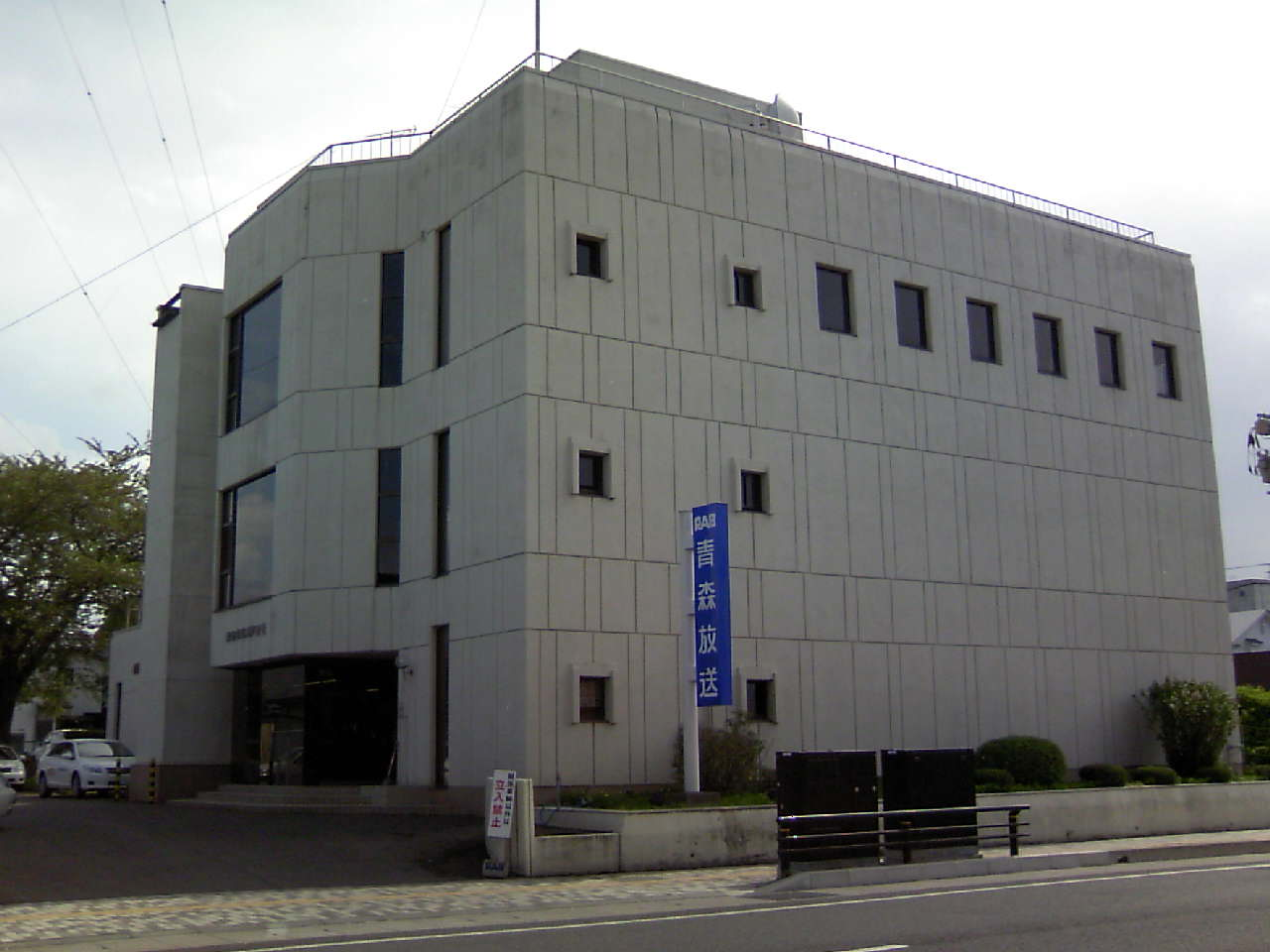 青森放送八戸支局 (RAB Hachinohe - Hachinohe, Aomori, JAPAN)